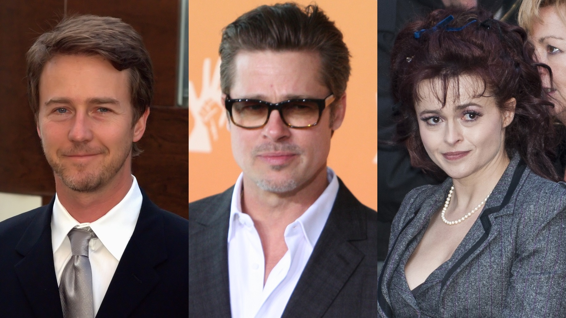 Core cast of the film Fight Club: Edward Norton, Brad Pitt and Helena Bonham Carter.